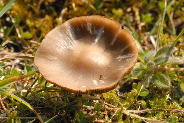 Psathyrella spadiceogrisea from Commanster, Belgium. The determination of the species shown in this picture has been verified.